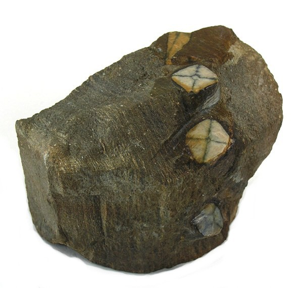 Andalusite, Andalusite (Var.: Chiastolite) Locality: Tyrol, Austria (Locality at ) This andalusite specimen passed from an old collection in New York to Richard Hauck at some point, and thence to us. What you see here are three startlingly clear and sharp crystals, with the internal "crosses" that make variety of andalusite so unique. These crosses consist of either clay or carbonaceous materials included inside the crystals in regular patterns (which can vary - you can see that a couple of them have circles in the middle at the crux of the cross). There is just nothing like these out there, and you dont see them around! Real conversation pieces . . . 8.3 x 6.5 x 5.1cm